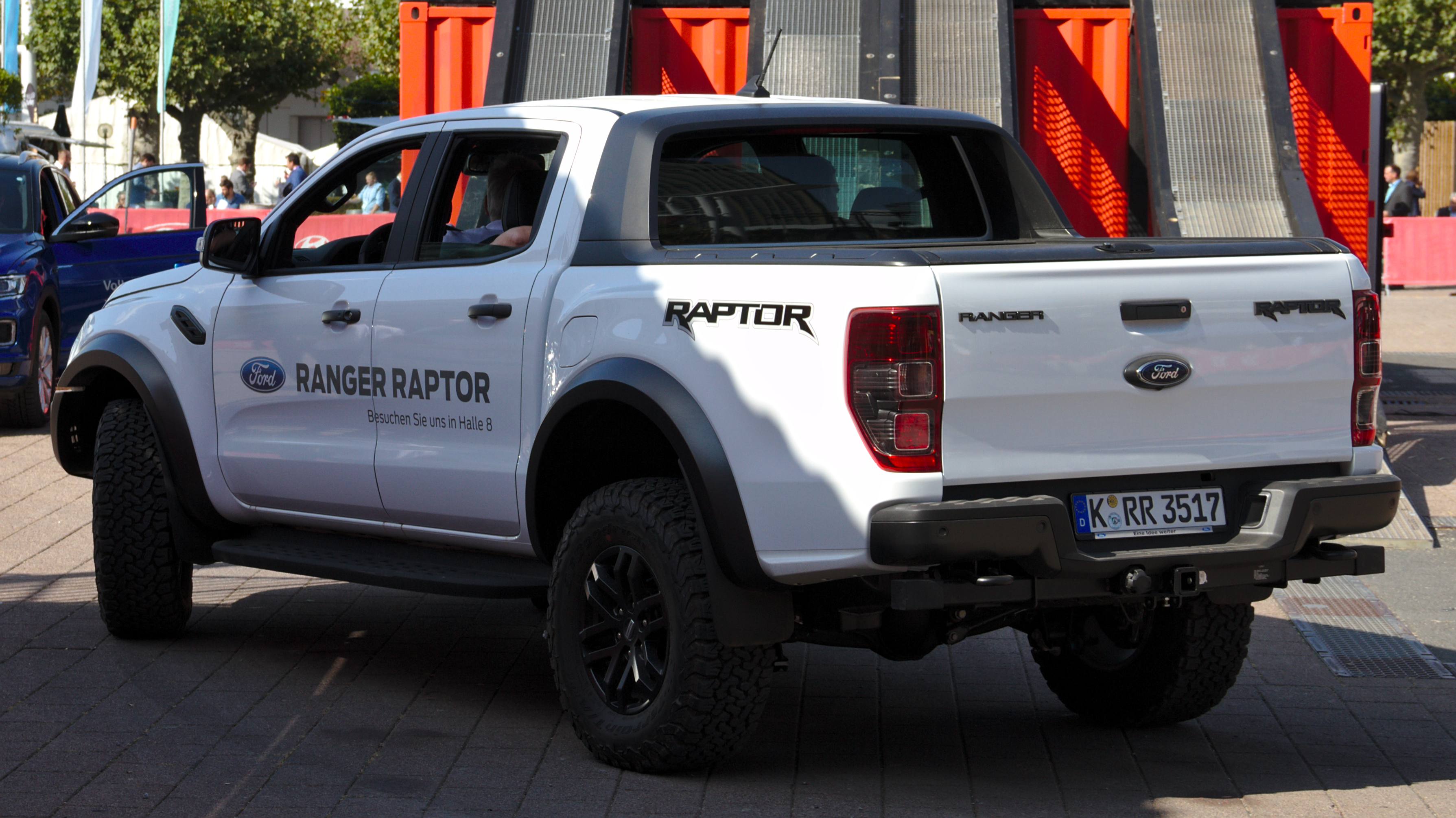 Ford_Ranger_Raptor at IAA 2019